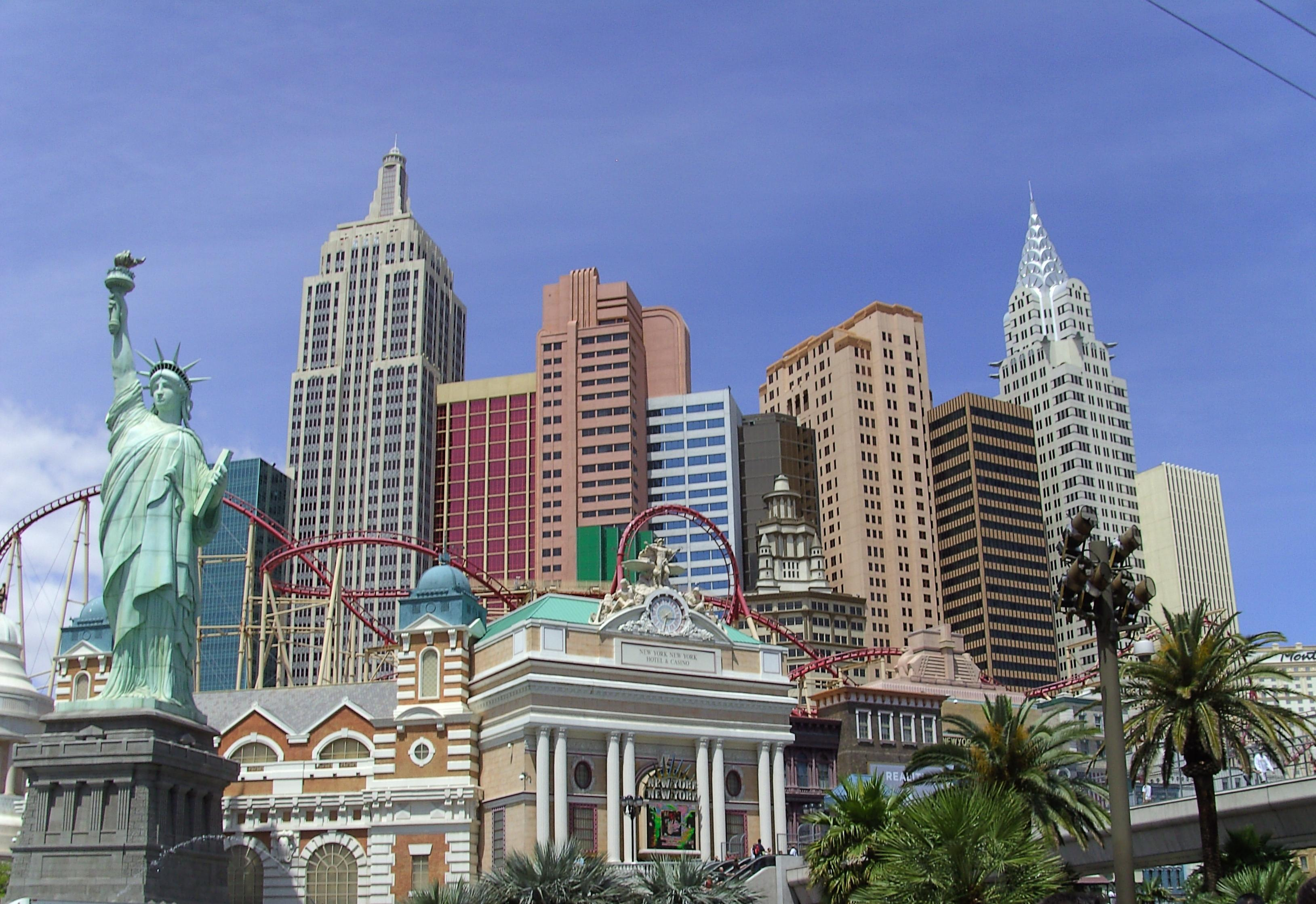 The New York, New York Hotel and Casino in Las Vegas